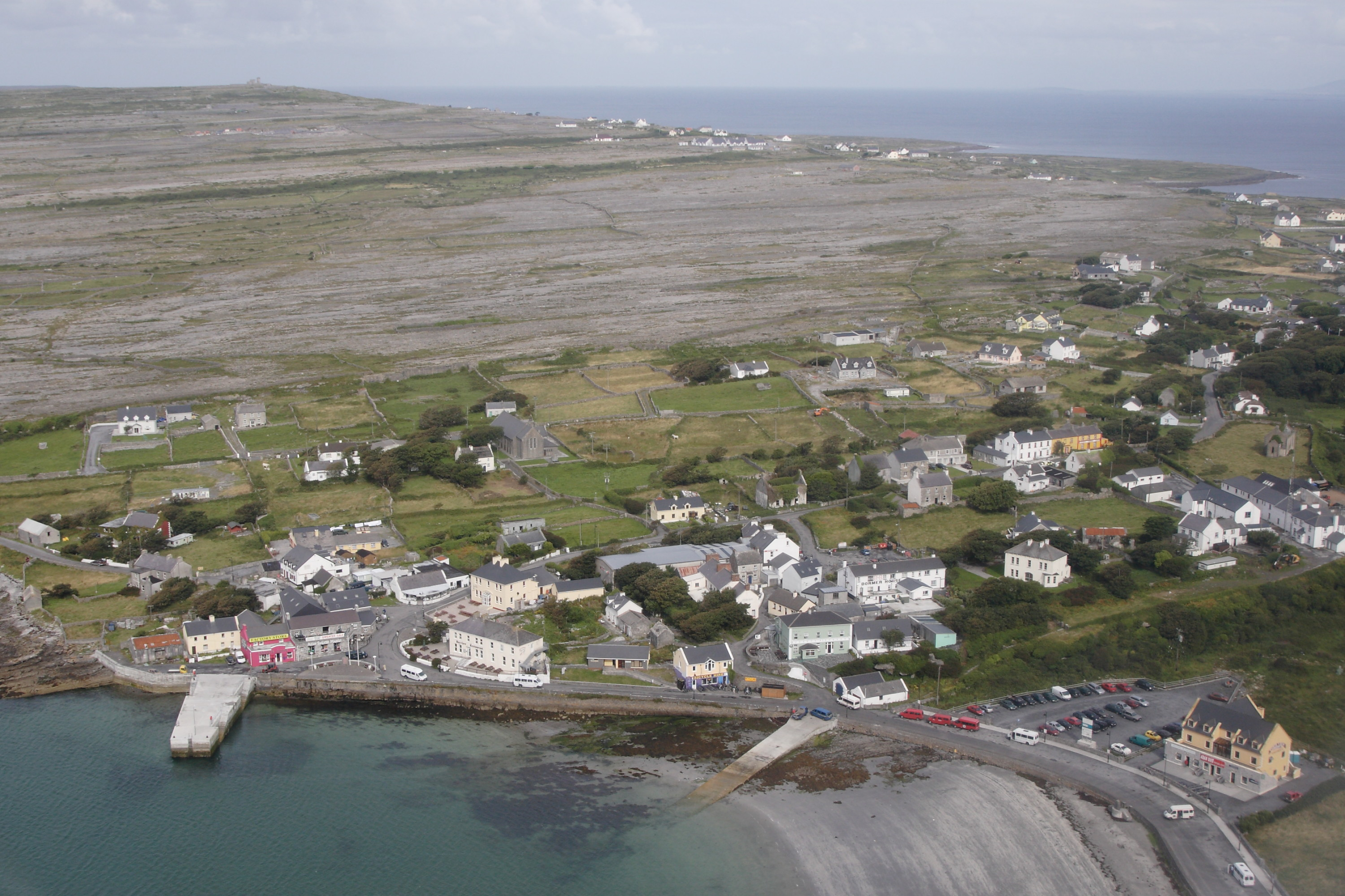 Southeastern aerial view of Kilronan, Island of Inishmore